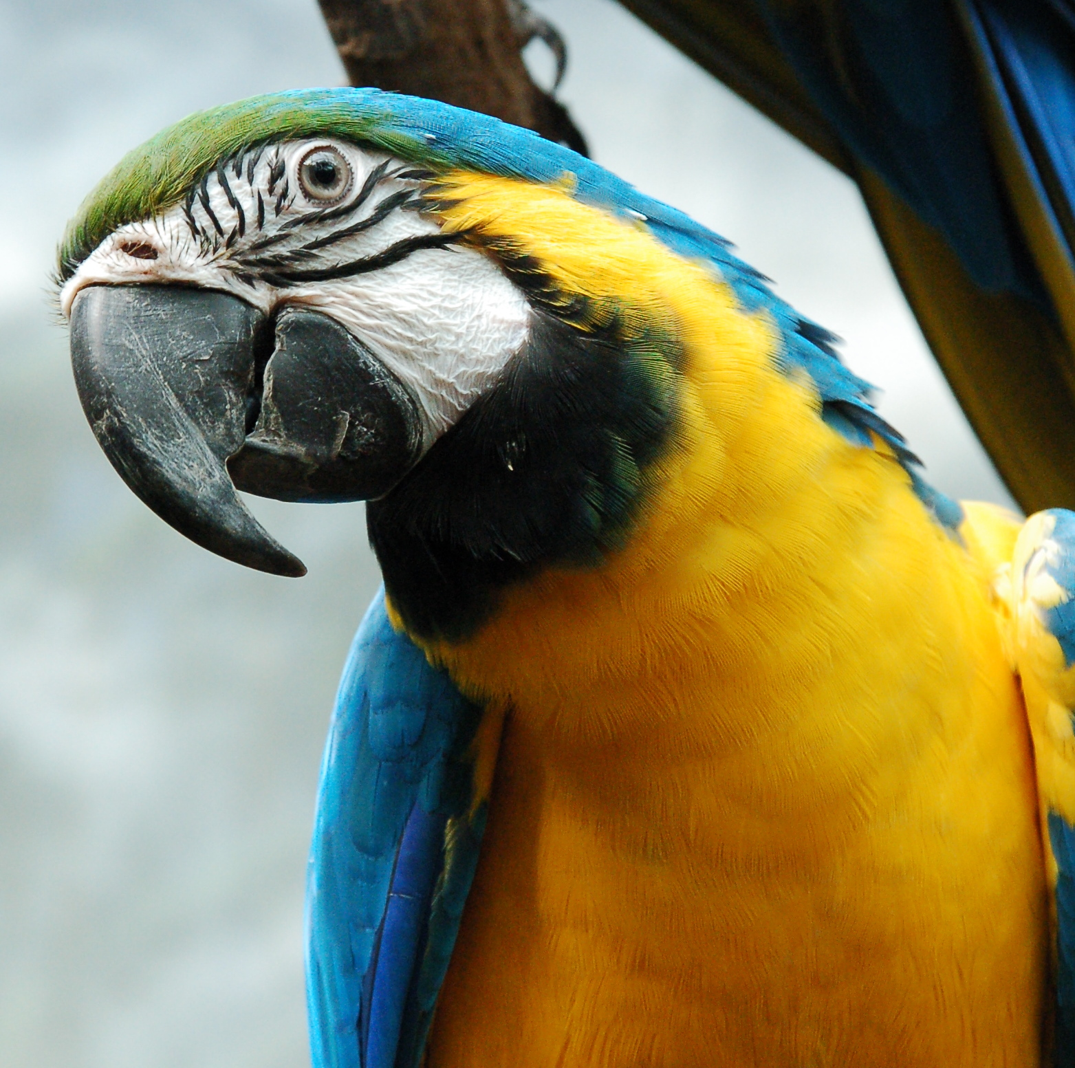 Blue-and-yellow Macaw (Ara ararauna), also known as the Blue-and-gold Macaw. Upper body and head. Taken in Faunia, Madrid, Spain